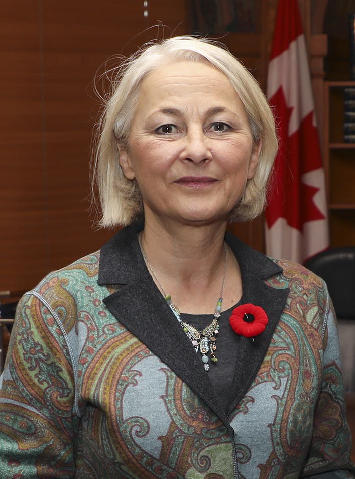 This morning I had the opportunity to meet Ambassador Sabine Sparwasser. She was recently appointed Germany’s Ambassador to Canada. Fun Fact: This month is also Canada's first German Heritage Month – an opportunity to celebrate the positive contributions German Canadians have made to communities across the country.